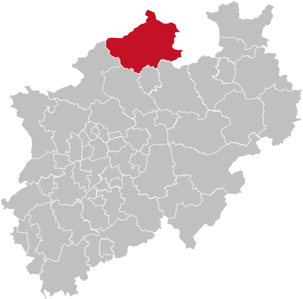 Map of Kreis Steinfurt, a District of Northrhine-Westphalia (NRW), Germany. Red/Grey colors match the color scheme of Germany maps and information boxes in German Wikipedia. Kreis is highlighted in red. Former version of map was based upon [:Image:North rhine w template.png] that displayed some districts in the Cologne/Bonn area not correctly.This new version is based upon template